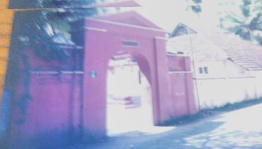 The main entrance of the Vanchiyoor Athiyara Madhom. The Madhom was also known as "Ambalayam" and it is situated in the locality known as Vanchiyoor in Trivandrum down-town of Kerala state.